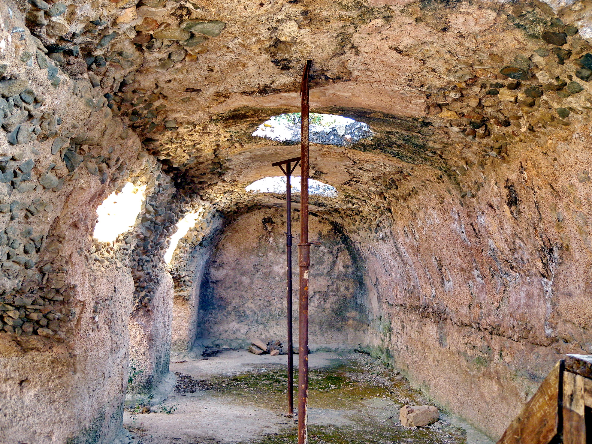 cisterns with roman aquedcut in Olbia